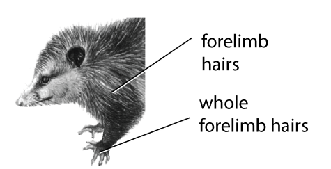 Standard Event System character depiction